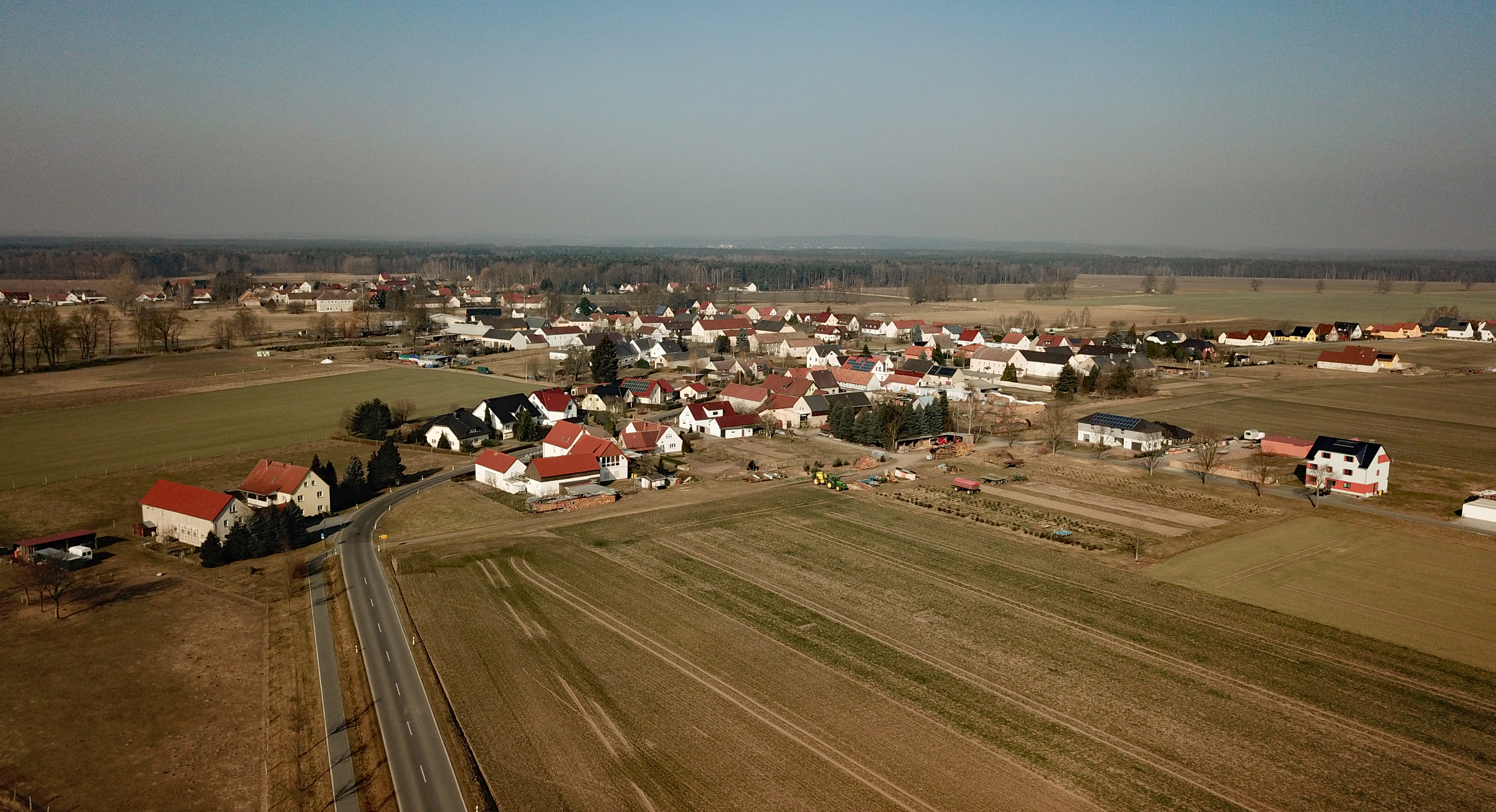 Cunnewitz (Ralbitz-Rosenthal, Saxony, Germany) Hornjoserbsce: Powětrowy wobraz Konjec